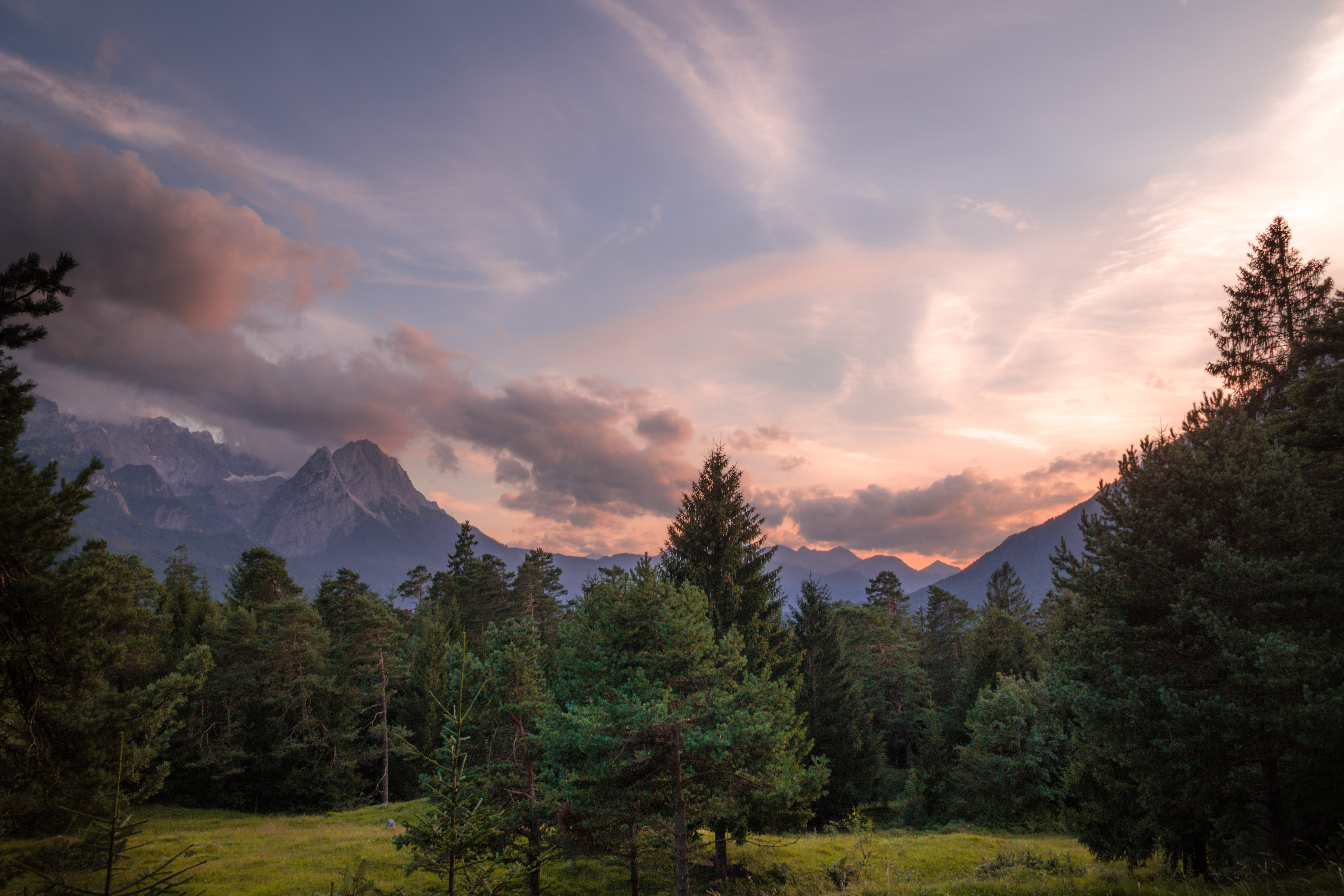 Garmisch-Partenkirchen, Germany